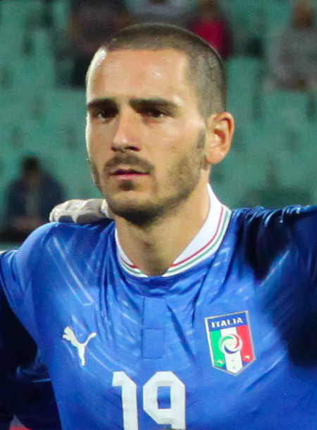 Leonardo Bonucci before the football game with Bulgaria, "Vasil Levski" stadium, Sofia, Bulgaria, September 7, 2012